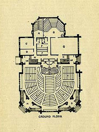 Plan of the ground floor of Jarvis Street Baptist Church in Toronto